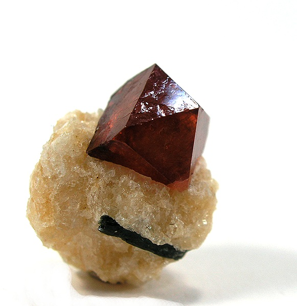 Zircon Locality: Gilgit, Gilgit District, Northern Areas, Pakistan (Locality at ) Size: thumbnail, 1.8 x 1.5 x 1.1 cm Zircon This is a lustrous, gemmy, cognac-colored crystal of zircon perched on a sugary, tan matrix of calcite. The tetragonal form of the almost, 1.0 cm zircon crystal, is very evident. It is a superb thumbnail, and of a quality that is extremely rare for the locality - let alone in an aesthetic specimen of any kind! This complex crystal is stunning.